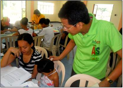 GlobALS learner with daughter attending ALS class (Philippines)